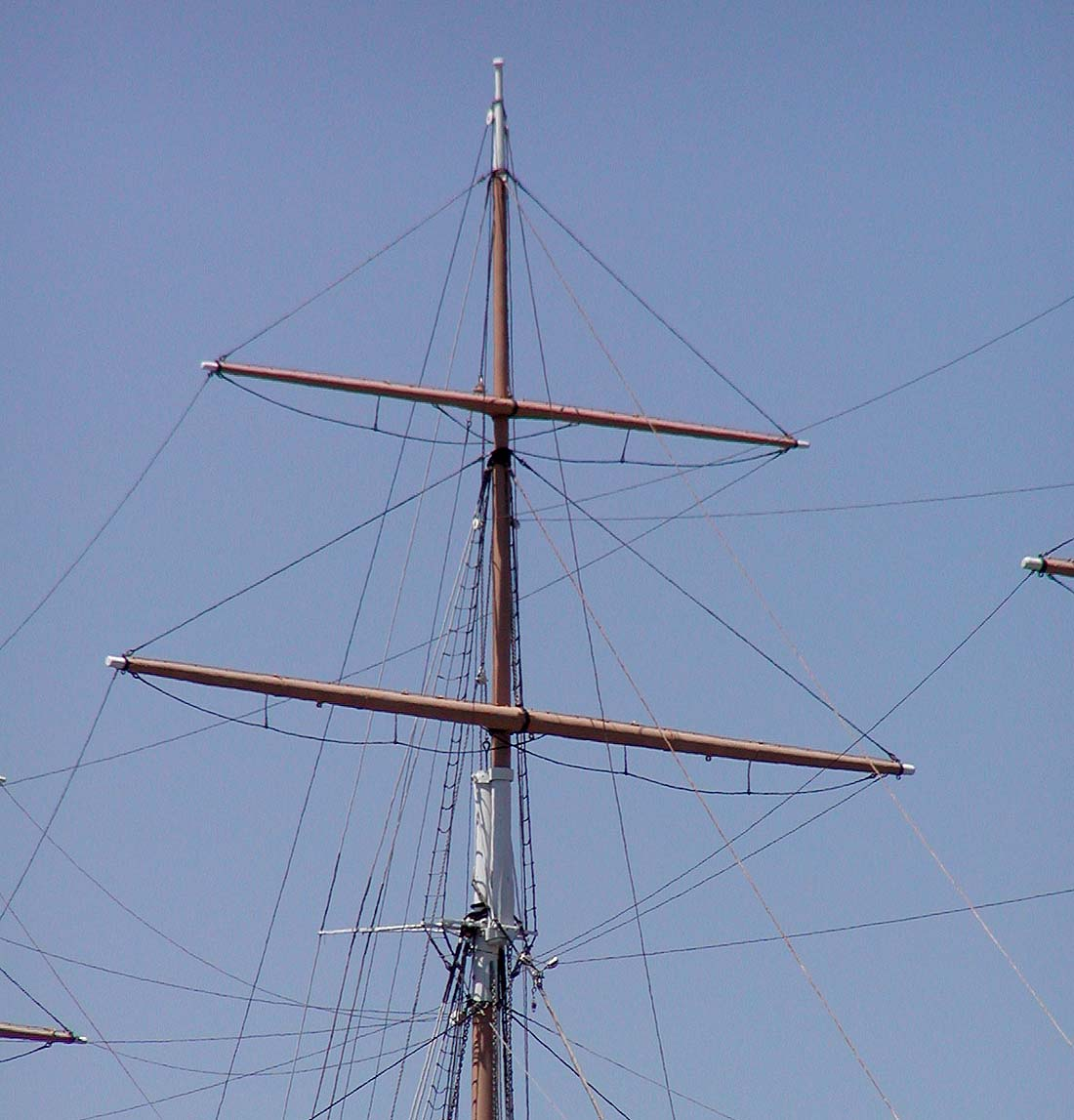 Balclutha's main topgallant mast Object location37° 48′ 35.28″ N, 122° 25′ 21″ W